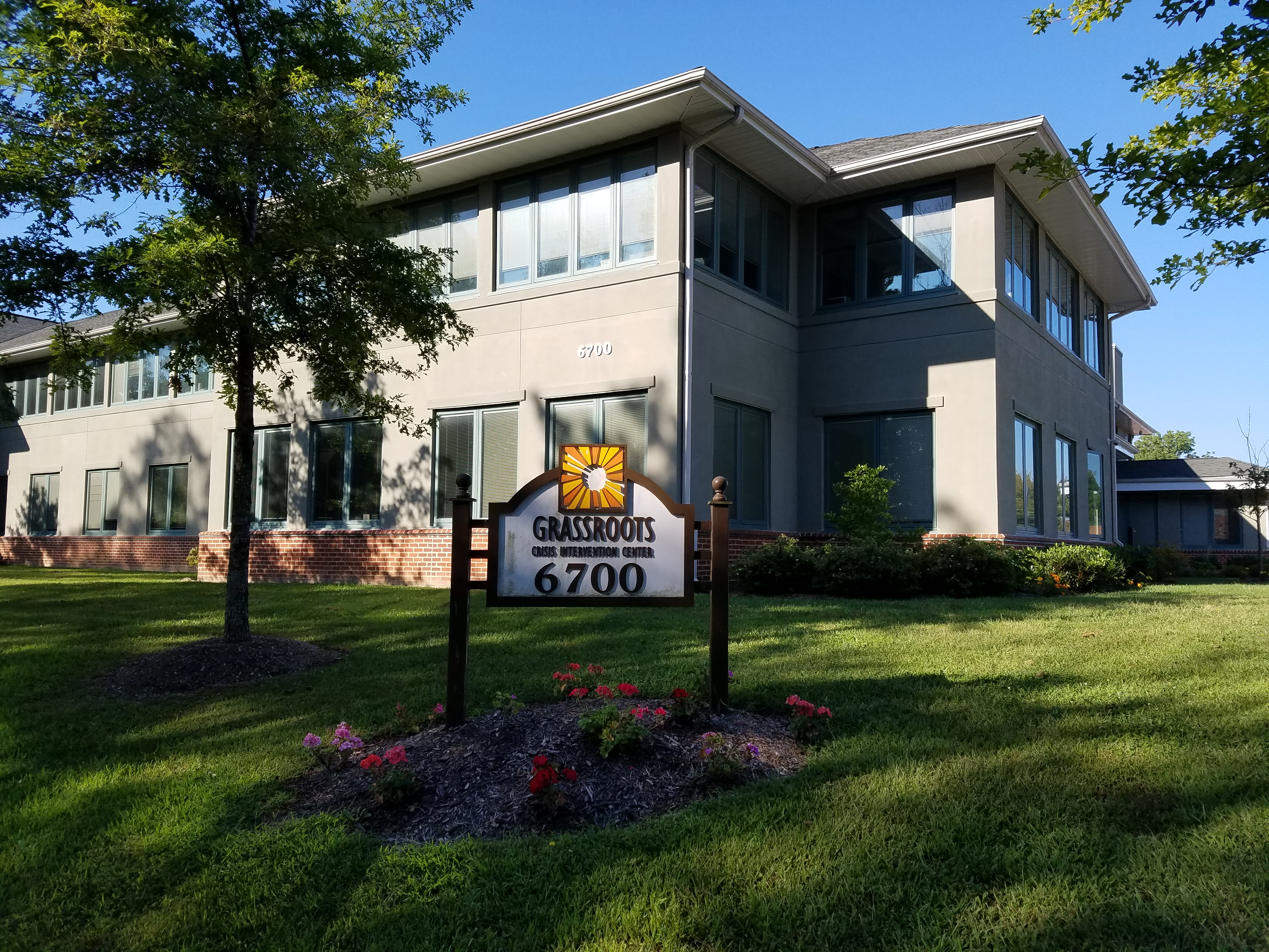 Grassroots Crisis Intervention Center 6700 Freetown Road Columbia, Maryland